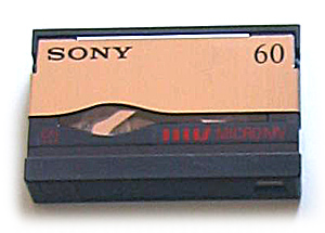 Sony MicroMV videocassette (detail from a larger picture).